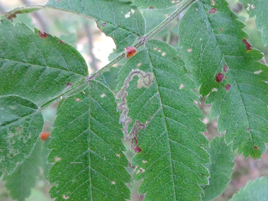 Stigmella nylandriella. Found in Jūrmala city, Latvia